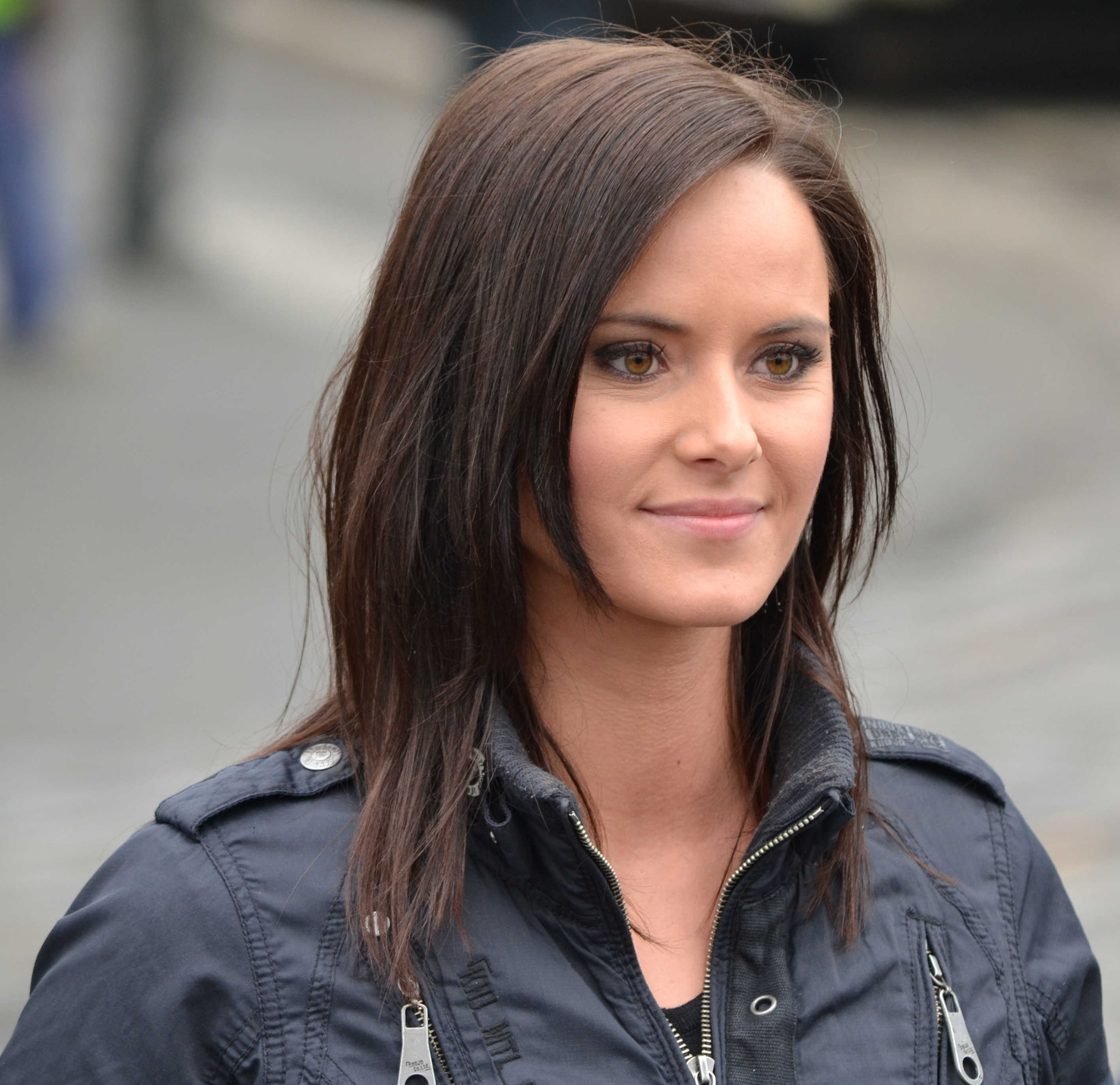 Renáta Czadernová, TV presenter